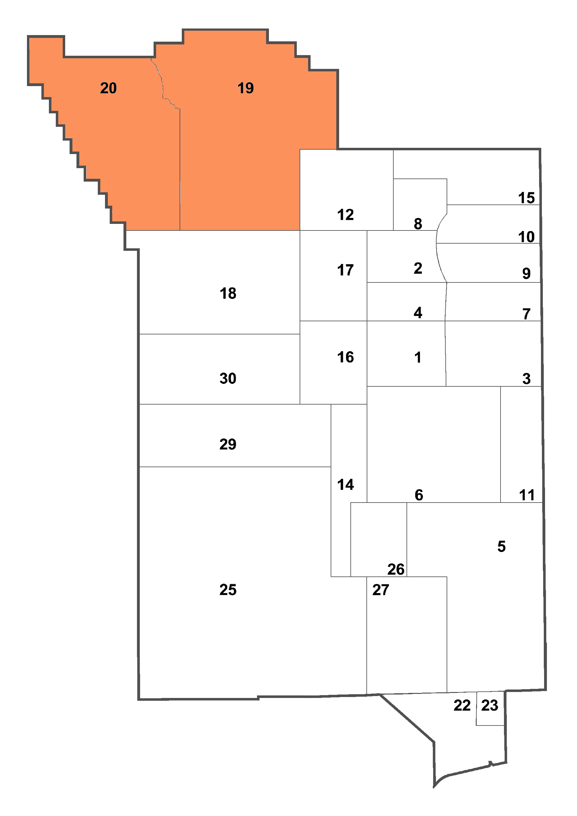 This is a derivative work based on a map taken from a PDF published by Nevada Risk Assessment/Management Program, Nevada Test Site, a part of the US Department of Energy.